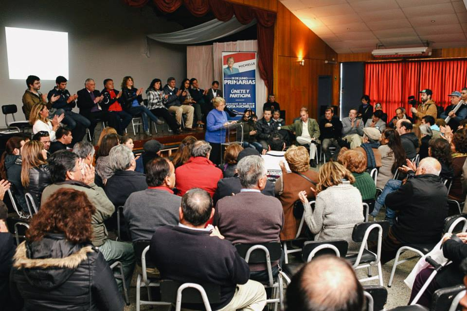 Campaña electoral de Michelle Bachelet 2013. Explica al público el voto de los chilenos en el extranjero.